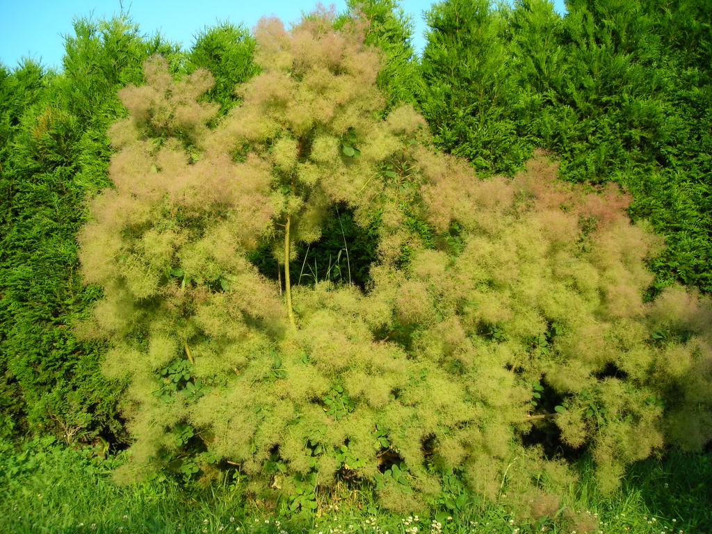 Cotinus